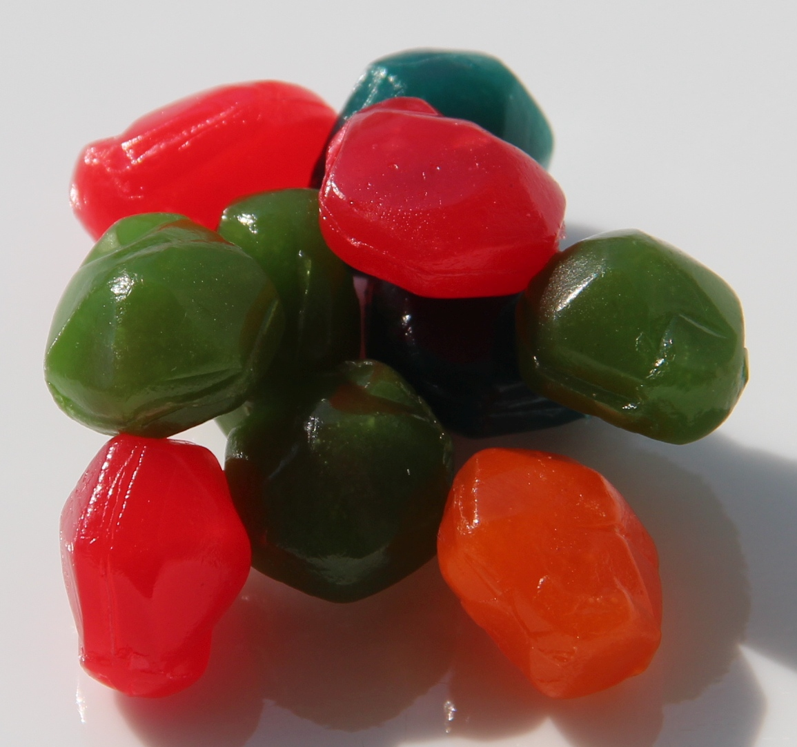 Fruit gushers closeup